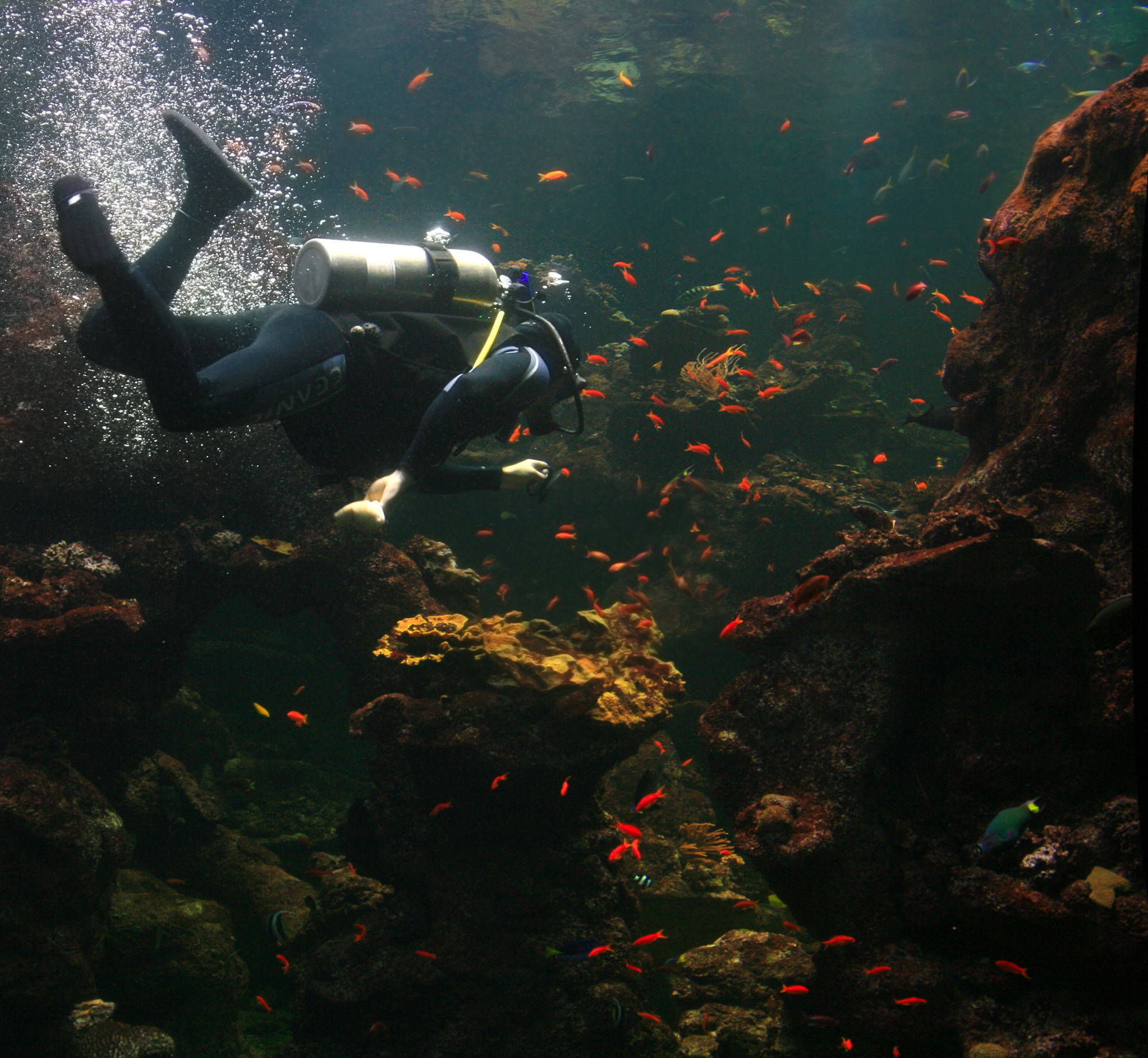 Diver is cleaning aquarium in California Academy of Sciences